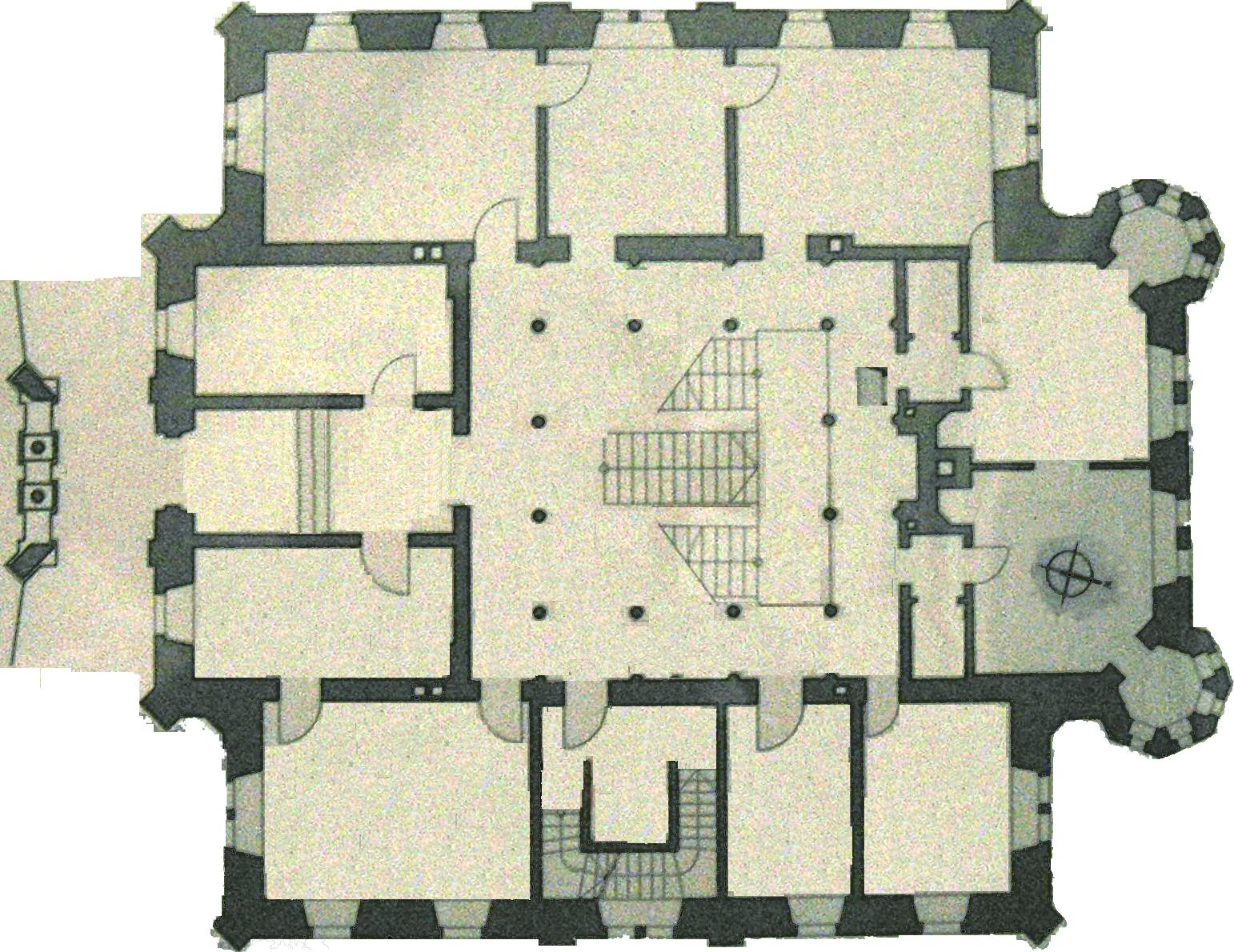 Colombischlösschen. Floorplan generated from an outdatet fire rescue plan. Without yardstick. (Freiburg im Breisgau Germany)